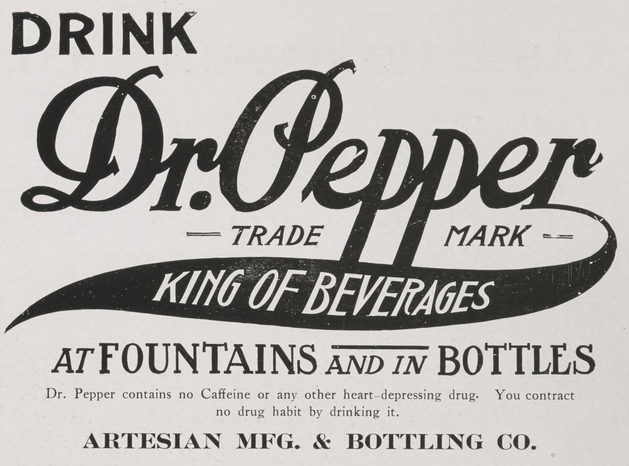 The Horned Frog (1909) - Vol. 6; 296 pgs.